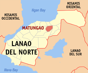 Map of the Lanao del Norte showing the location of Matungao